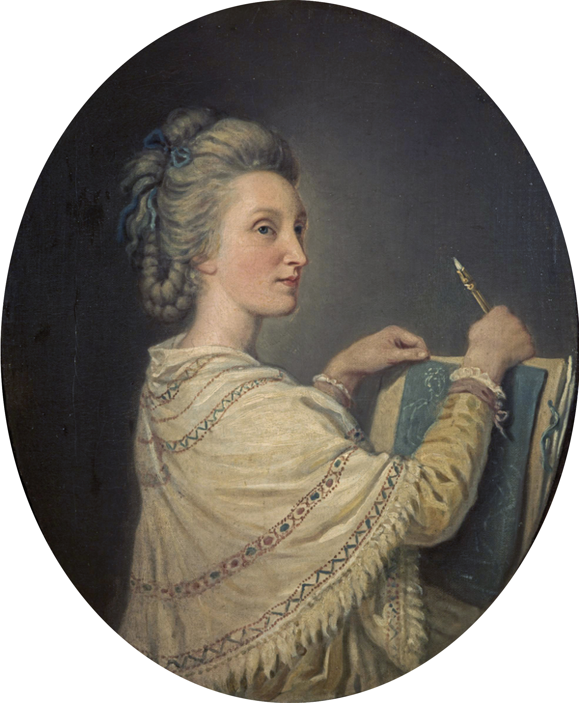 Anne Forbes, 1745 - 1834. Artist oil on canvas 38.3 x 32 cm 1781